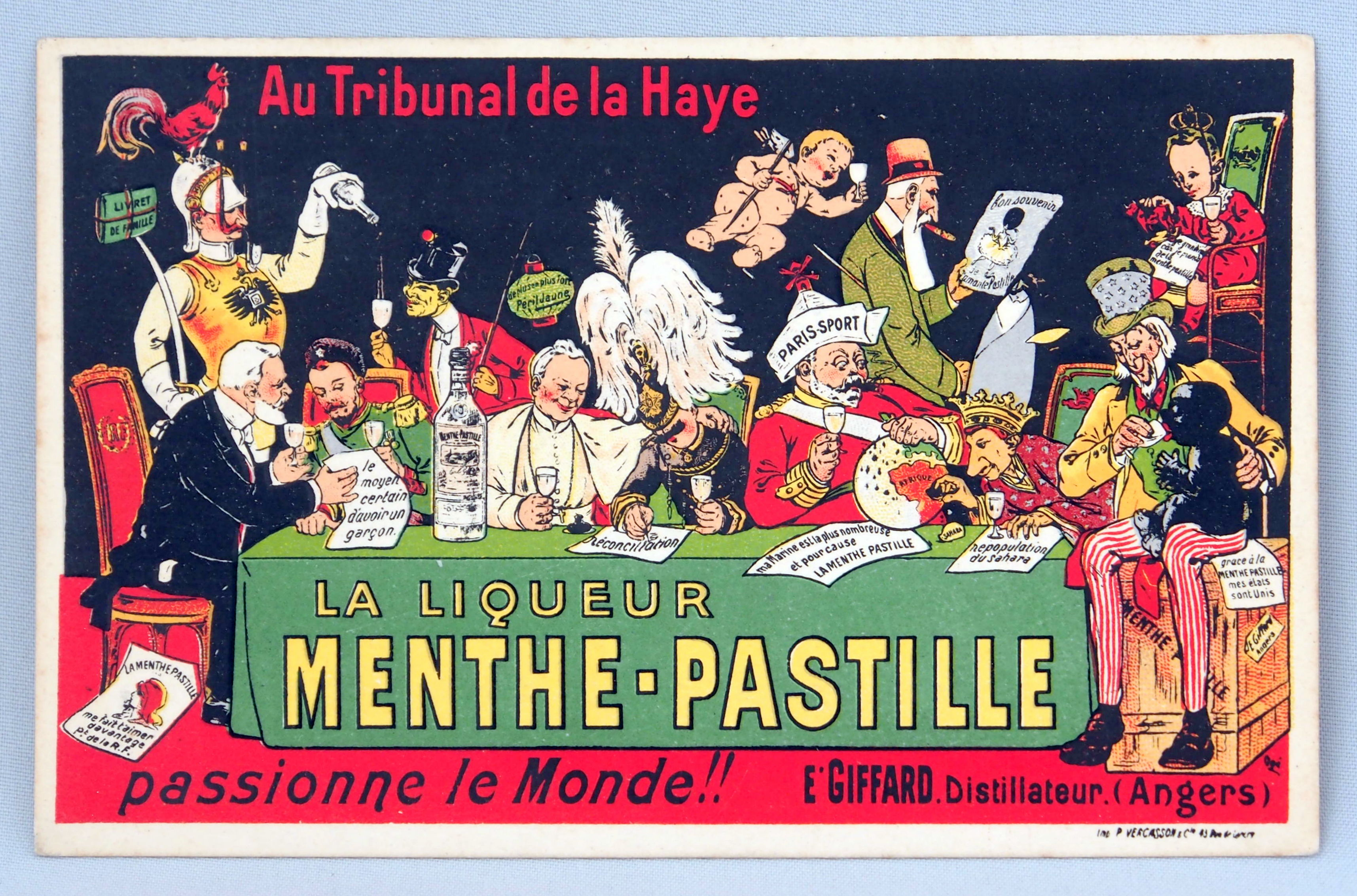 Very old product that is not produced and not sold any more.